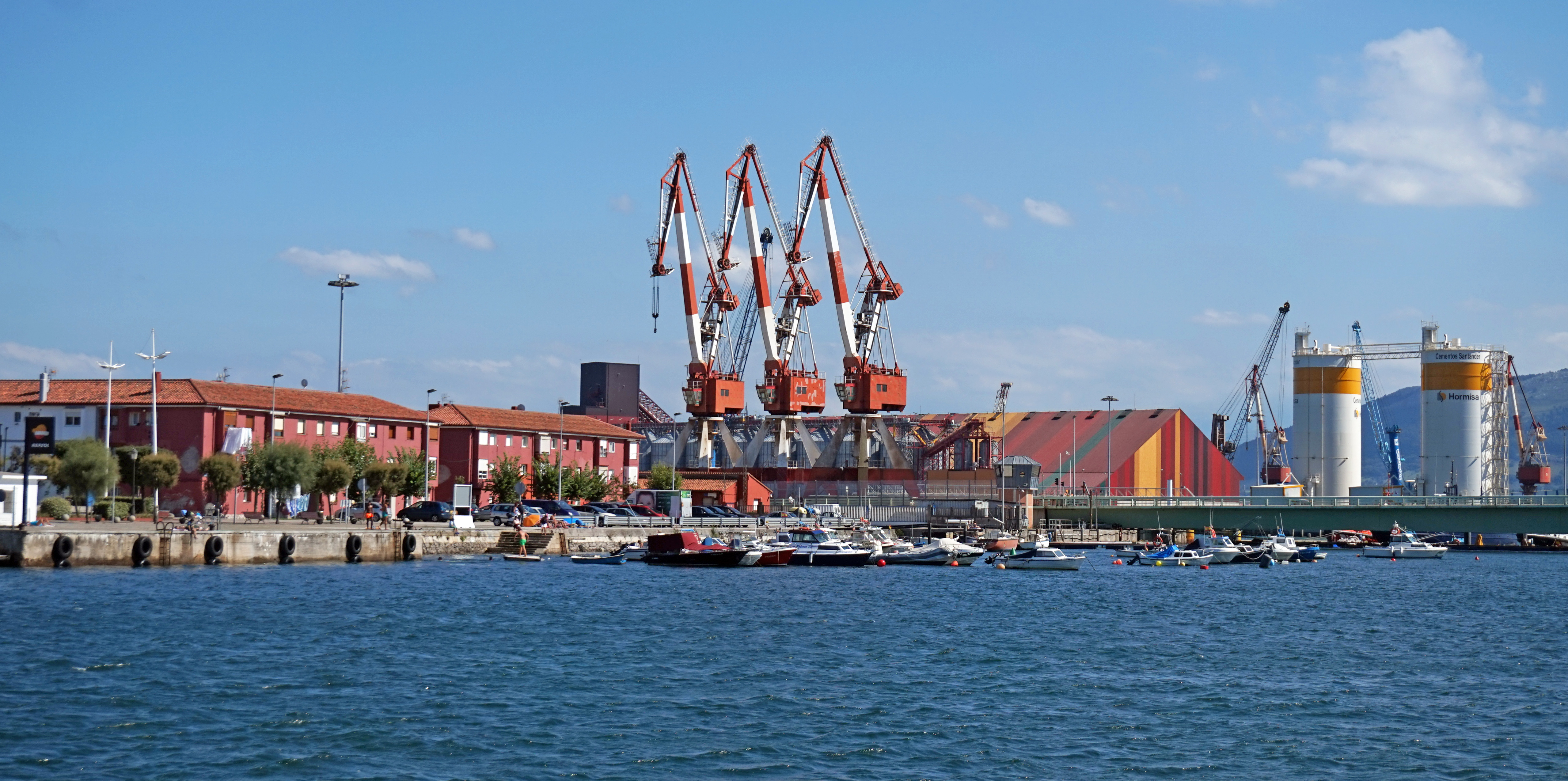 The area Barrio Pesquero in Santander, Spain.This photograph was taken with a Sony ILCE-5000